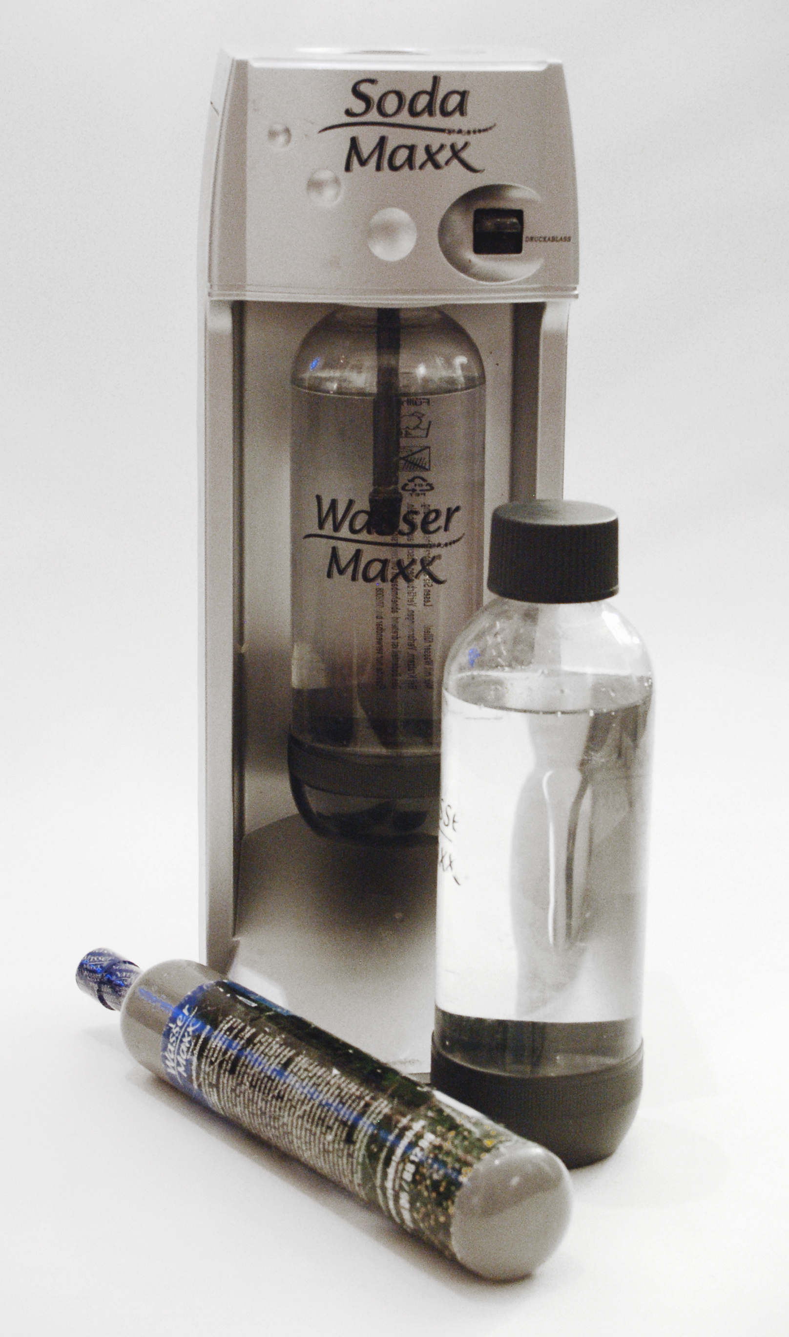 Home soda maker with bottles and CO2 cartridge